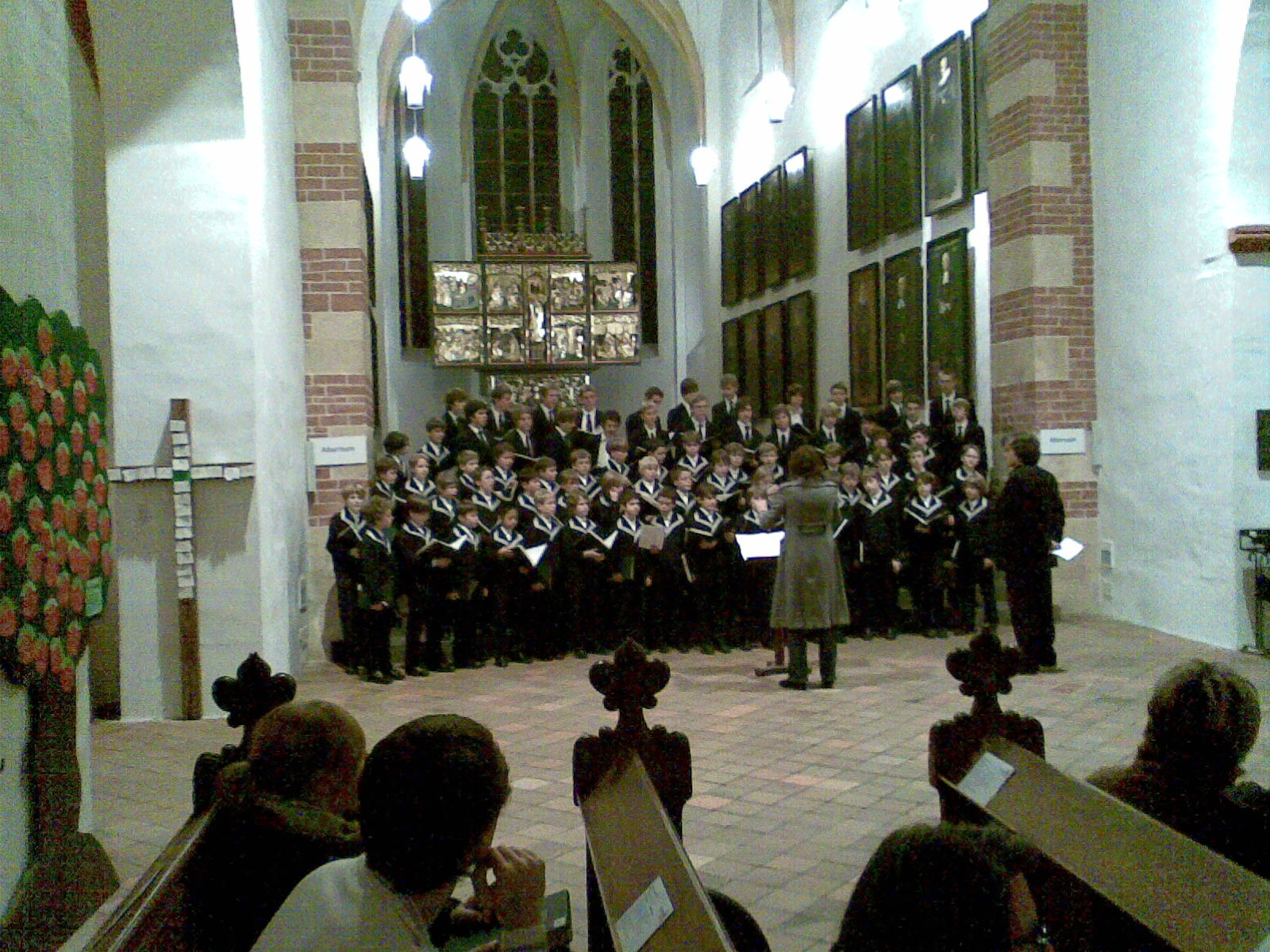 Thomanerchor